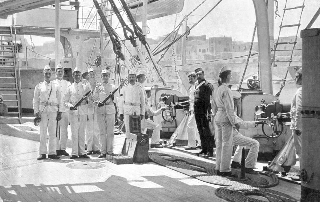 Photograph showing gun drill on the QF 6 pounder Nordenfelt gun. On British battleship HMS Camperdown.